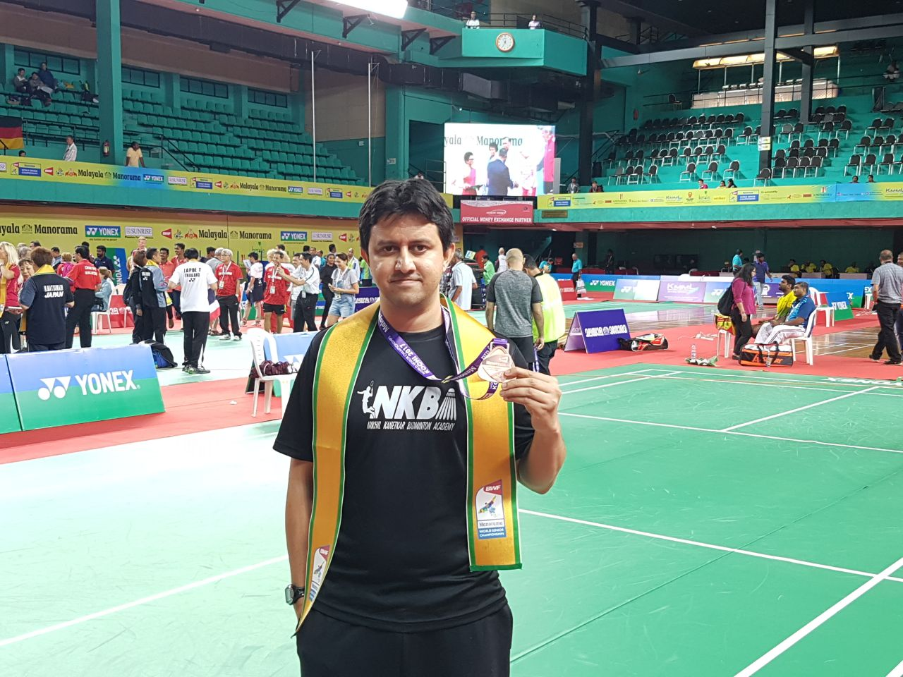 Nikhil Kanetkar